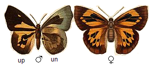 Liphyra brassolis based on illustration in Fauna Indo Australiaca 1921